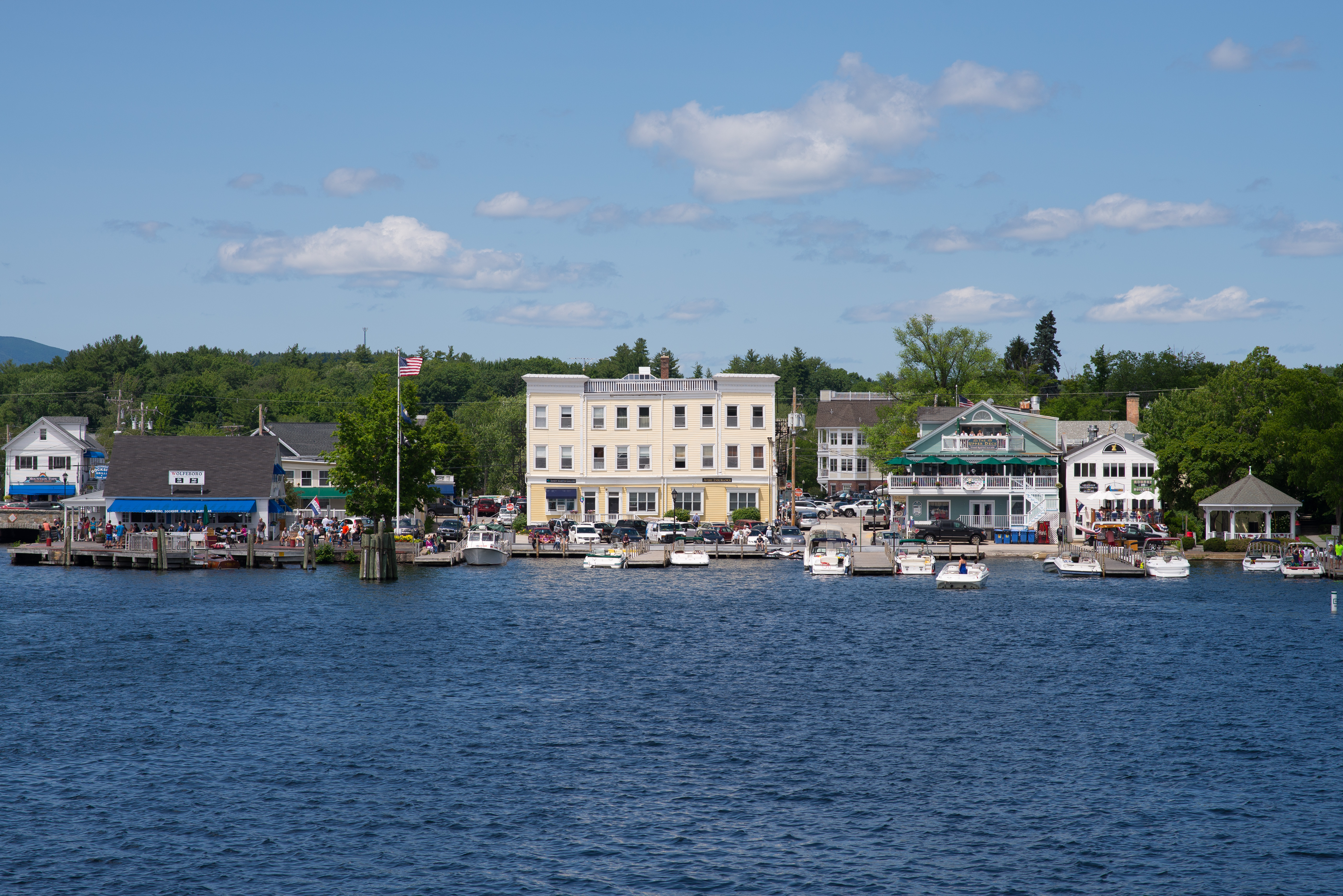 View of the town docks of Wolfeboro, New Hampshire, also showing some of the local restaurants and the gazebo by Cate Park.